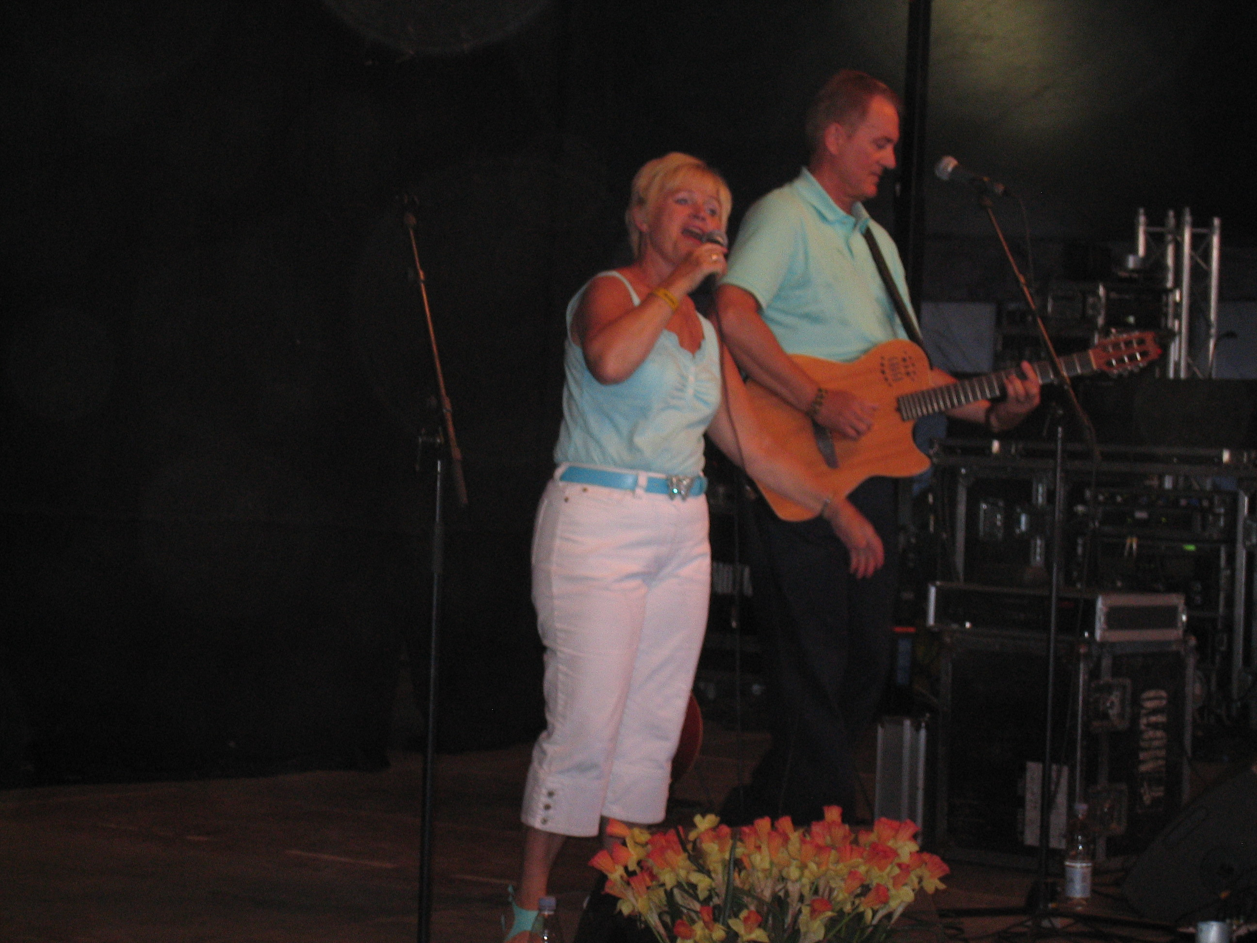 Picture of Danish musicians Hilda Heick and Keld Heick. Taken on Langelandsfestivalen 2006, July 26th by User:Lhademmor.